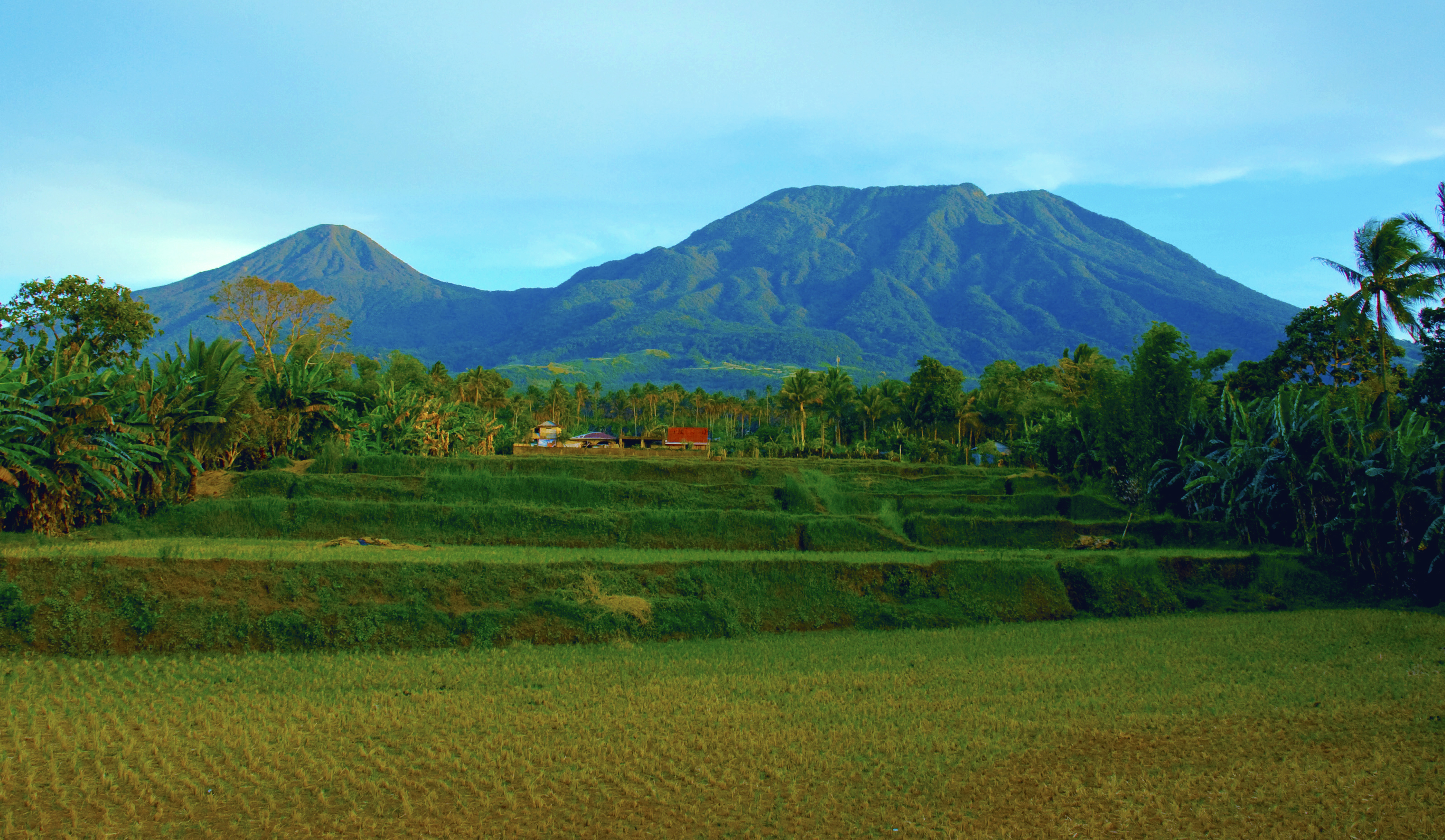 Mount Banahaw and Mount San Cristobal is a protected landscape spanning across the Southern Laguna towns of Majayjay, Nagcarlan, Liliw, Rizal and San Pablo and the northern Quezon towns of Dolores, Candelaria, Sariaya, Lucban and Tayabas. It is home to several endemic fauna including fruit bats, forest mouse, Philippine wild pigs, deers, and forest frogs.It is home also to Philippine Eagle, Philippine Eagle-owl, Flame breasted fruit dove, and Philippine cockatoo.